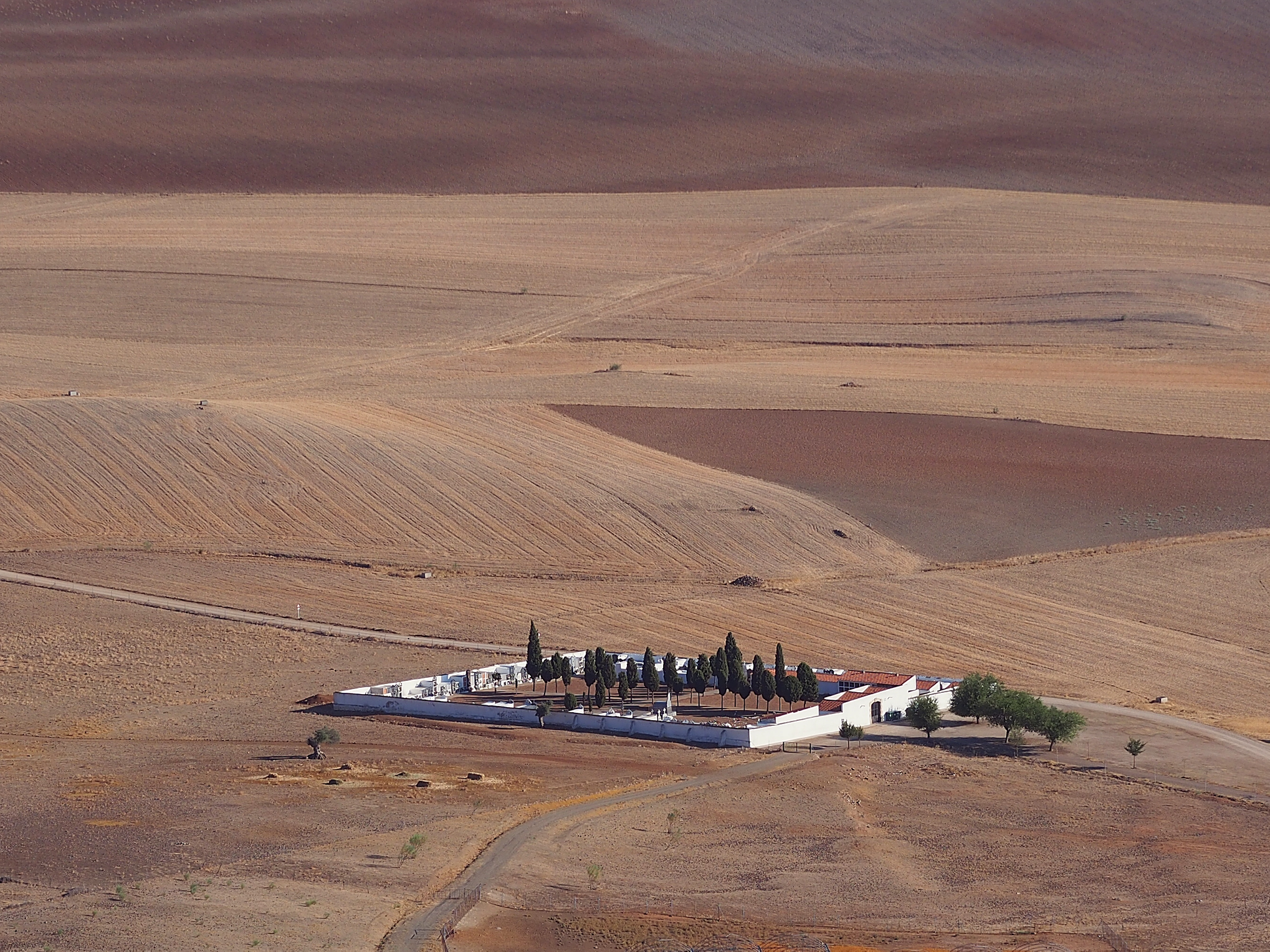 Quiet place to lie down...